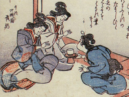 "Rikonbyō" (魂離病, essentially a living ghost, as it is a living person's soul outside of their body) from the Kyōka Hyaku Monogatari (狂歌百物語, Japanese picture)